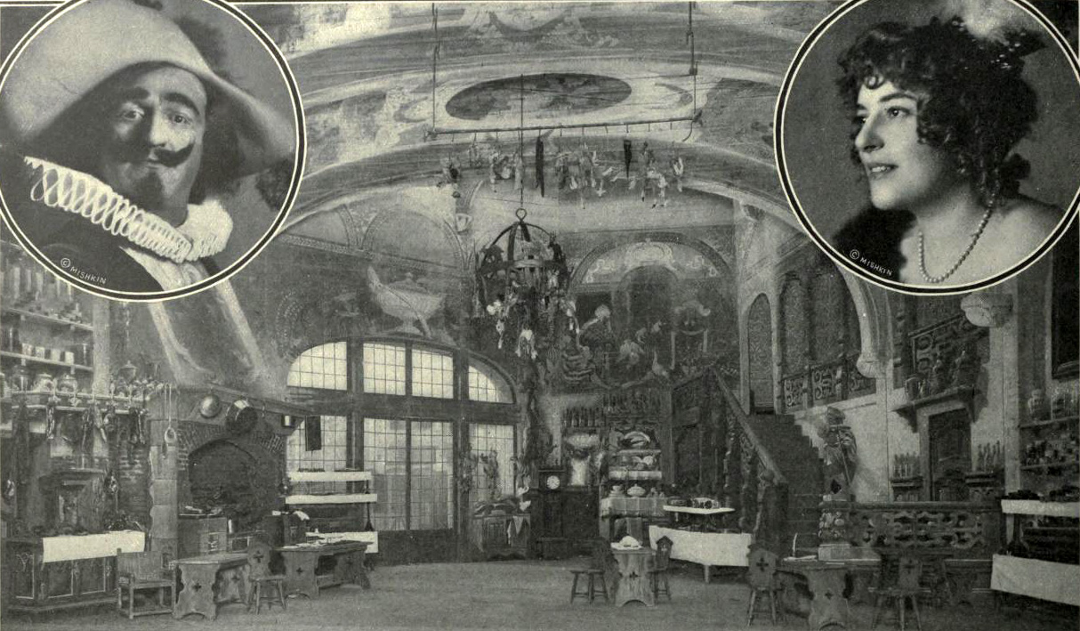 Illustration from Theatre Magazine for the premiere of Walter Damrosch's opera Cyrano showing the stage setting for Act 2 with inset portraits of Pasquale Amato (left) and Frances Alda (right).